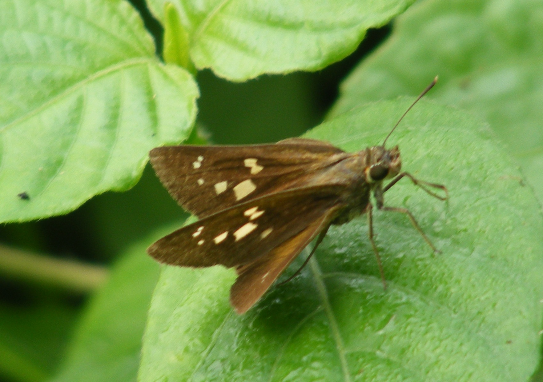 Conjoined Swift Pelopidas conjunctus conjunctus DSCF6522 (9). Singapore